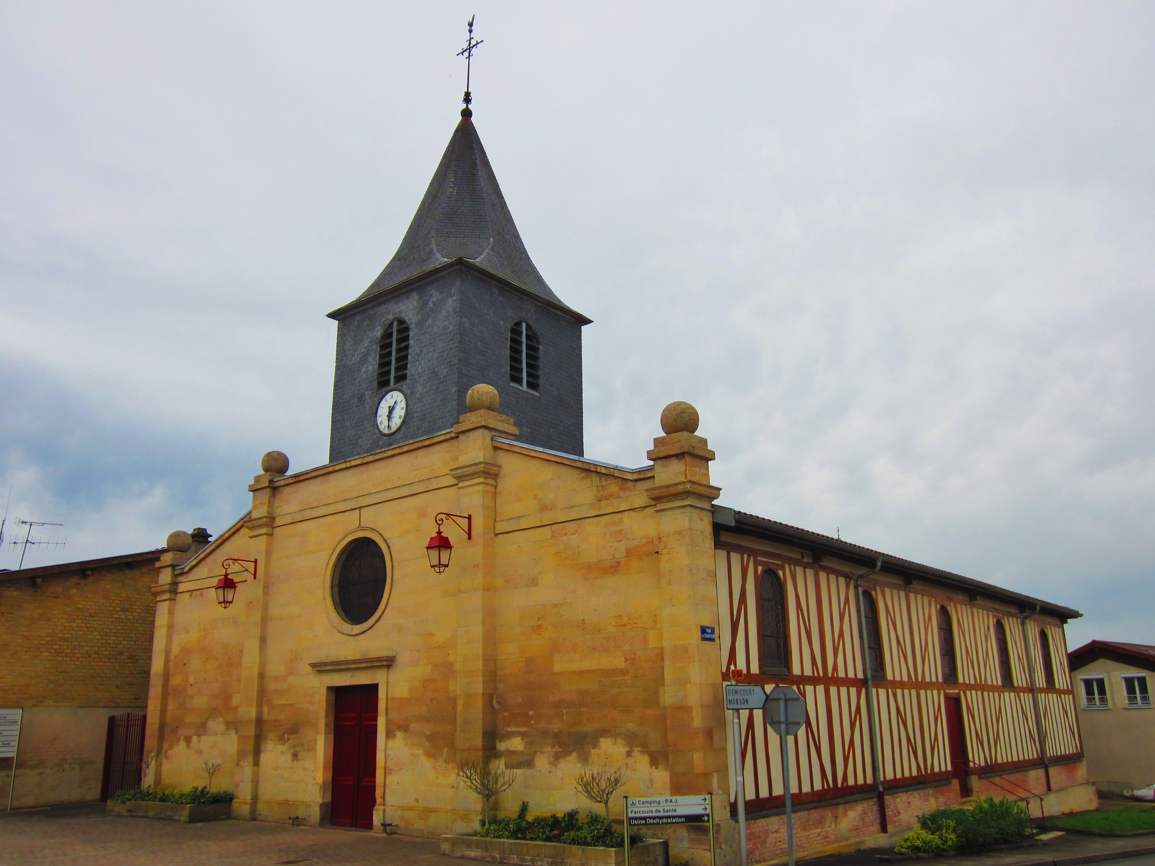 Givry Argonne church